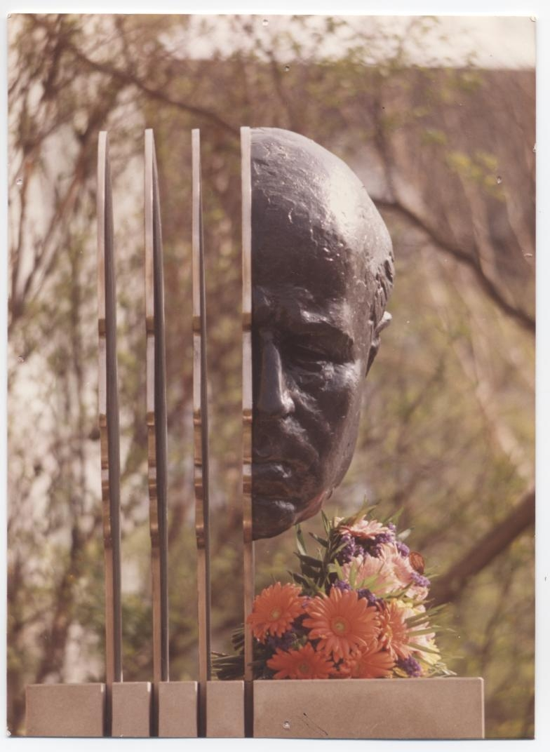 Monument of Pau Casals in the German town Wolfenbüttel, next to the Herzog August Bibliothek.